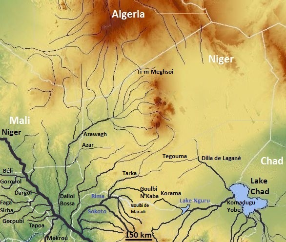 Rivers of Niger OSM